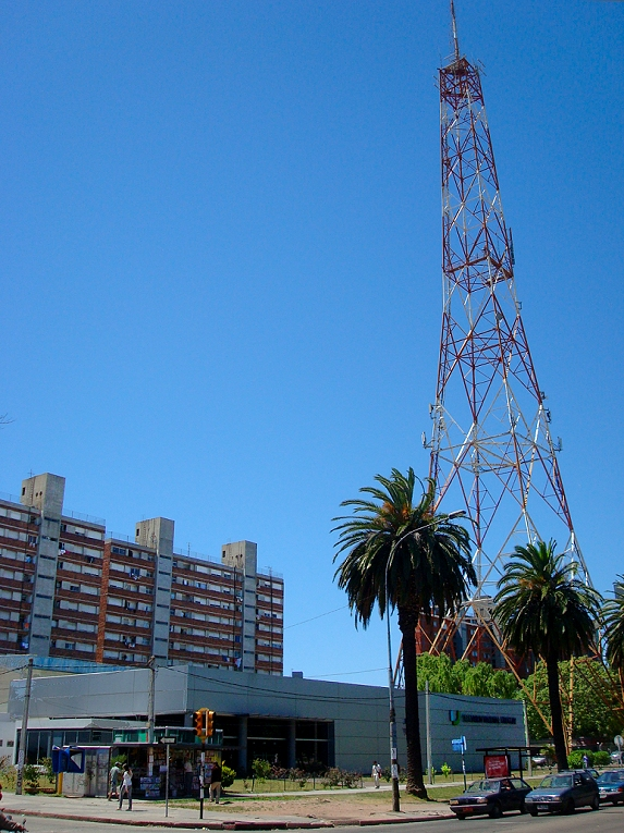 Television Nacional Uruguay "Canal 5" (seen from Artigas Boulevard), Larrañaga, Montevideo, Uruguay.